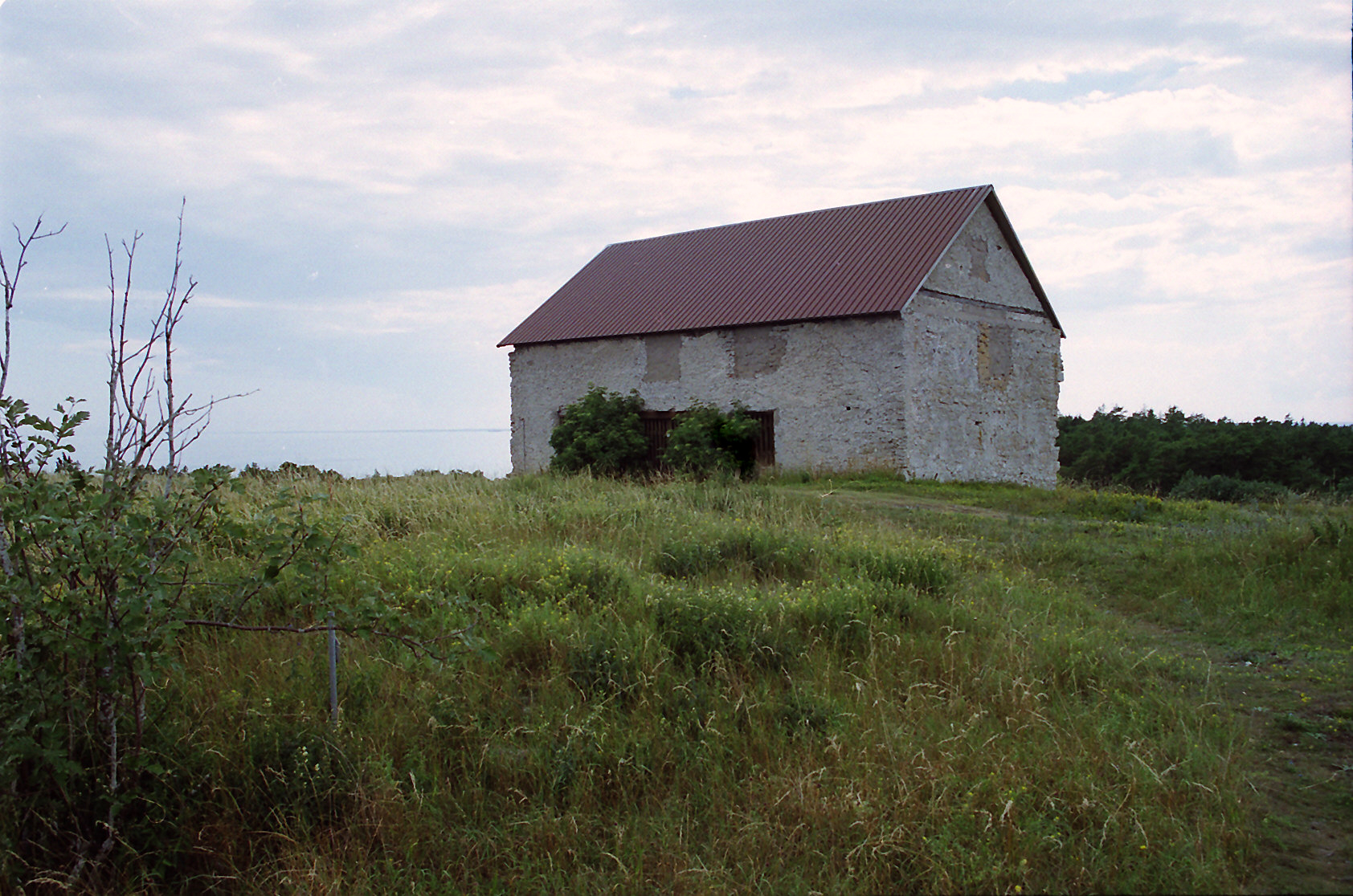 Church of Saint Olaf, Hellvi parish, Gotland